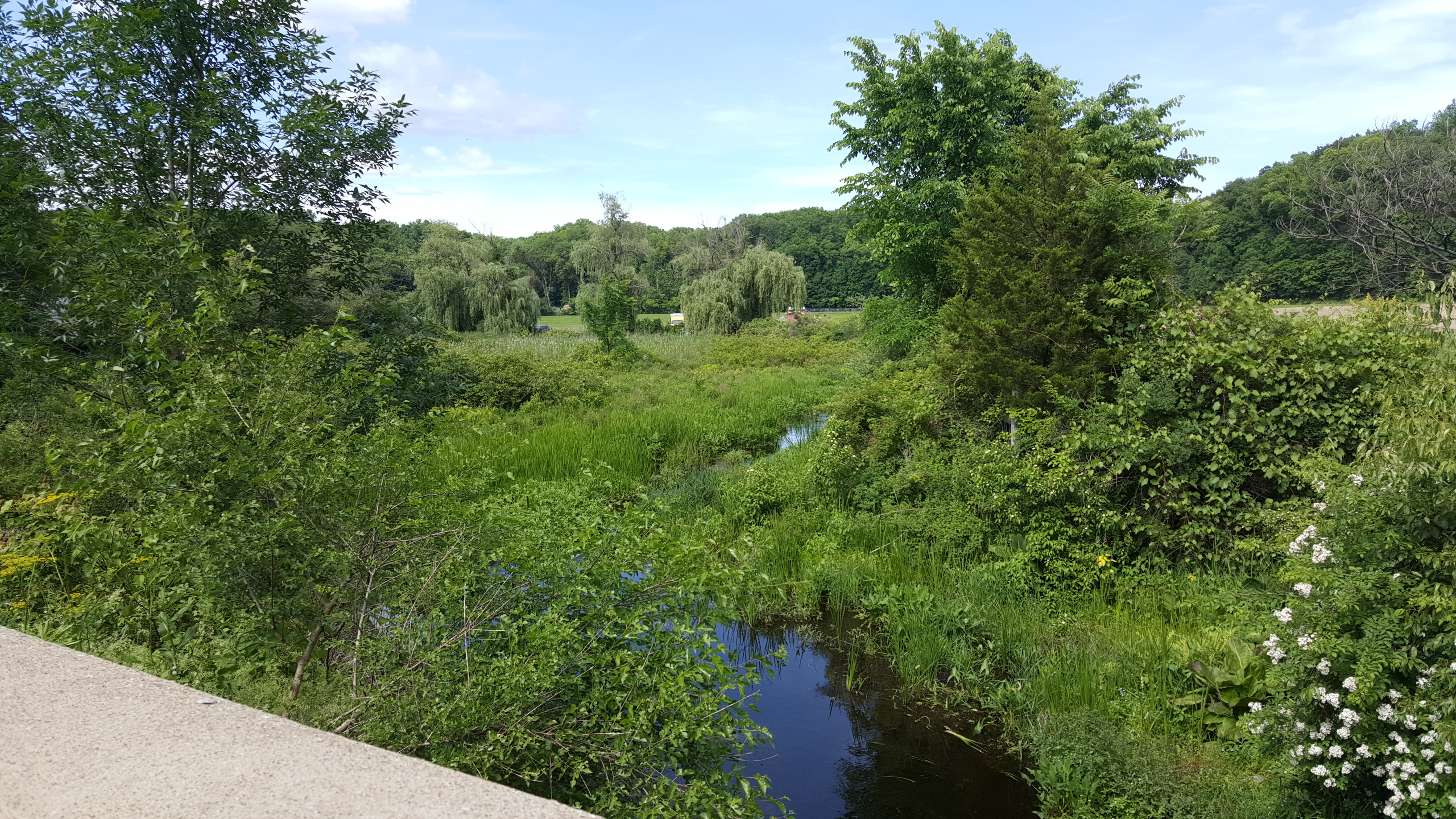 Pequest River headwaters near Springdale Andover Twsp NJ